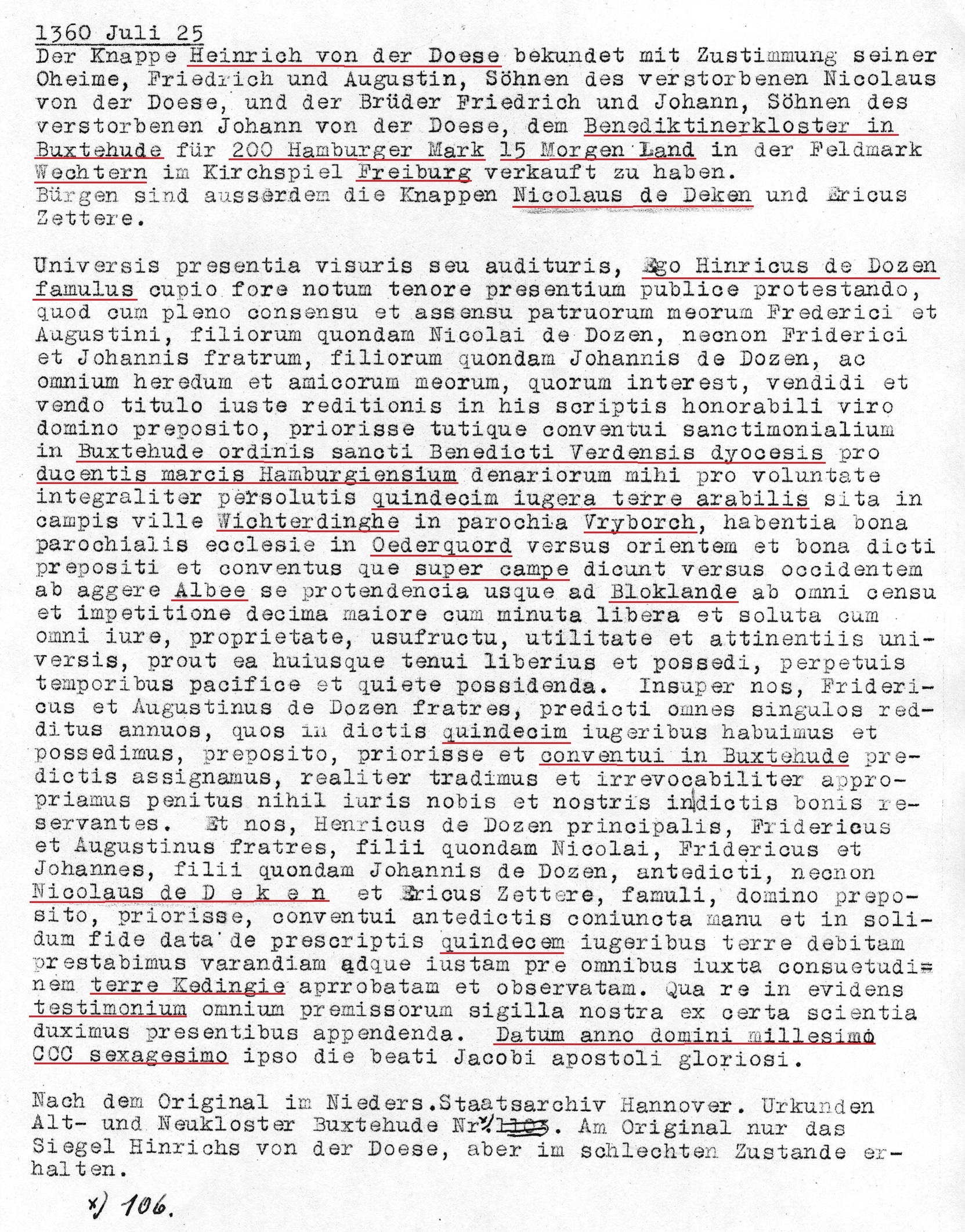 Copy of a document